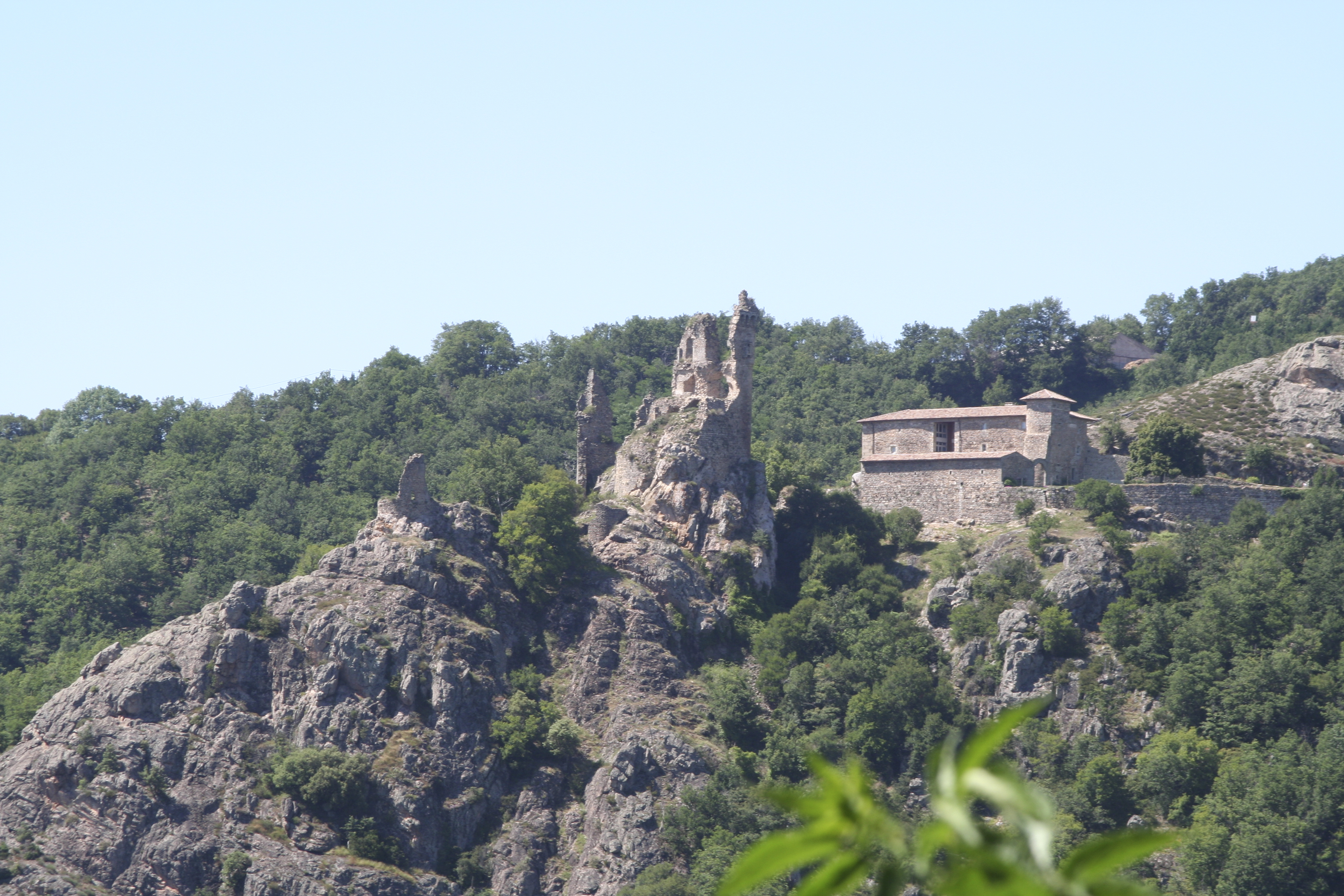 Castle la Tourette